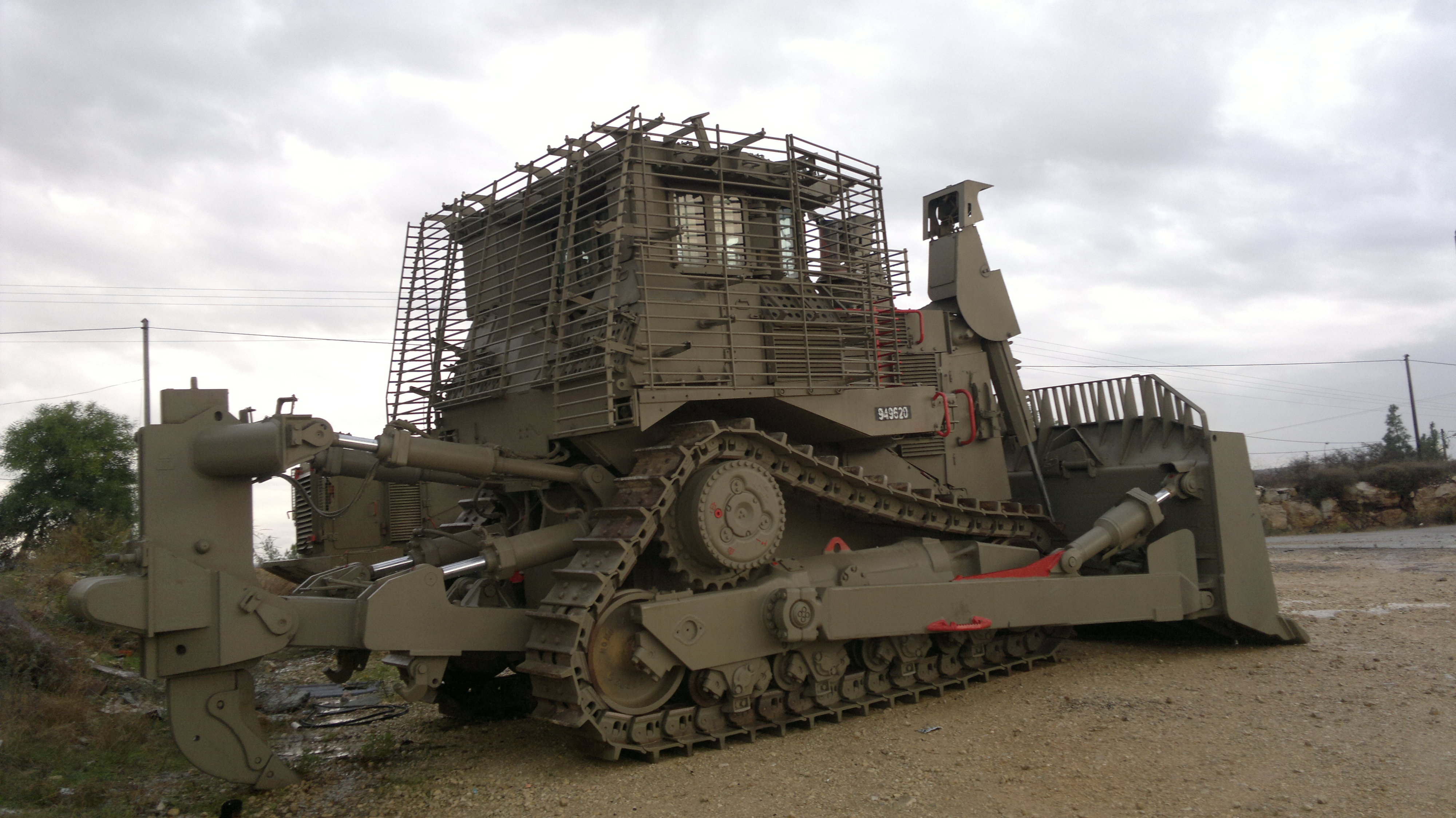 The Israeli Armored CAT D9R